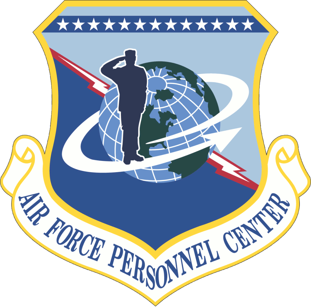 Emblem of the Air Force Personnel Center of the United States Air Force